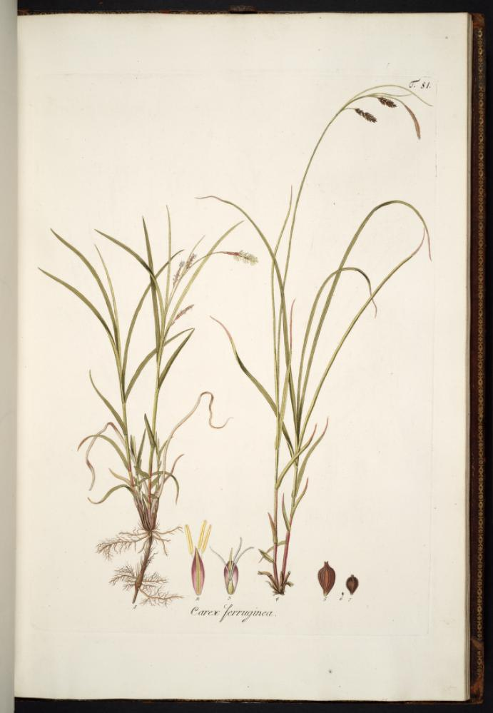 Illustration of Carex ferruginea